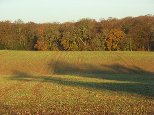 Farmland, Dunsden A cereal crop in a slight dip in front of Lady's Shaw.